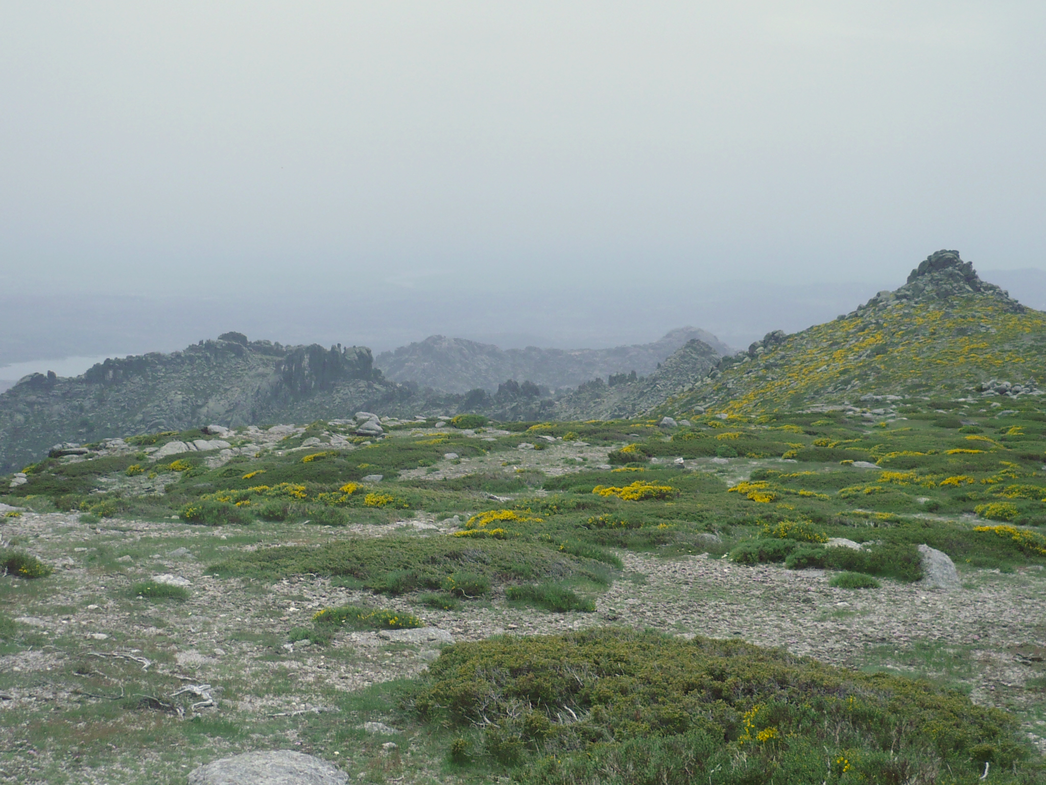 The peak is Alto de Matasanos. The range is Pedriza Posterior. Sierra de Guadarrama, Madrid. The vegetation is Cytisus oromediterraneus (with the yellow flowers) and Juniperus comunnis subsp. alpina